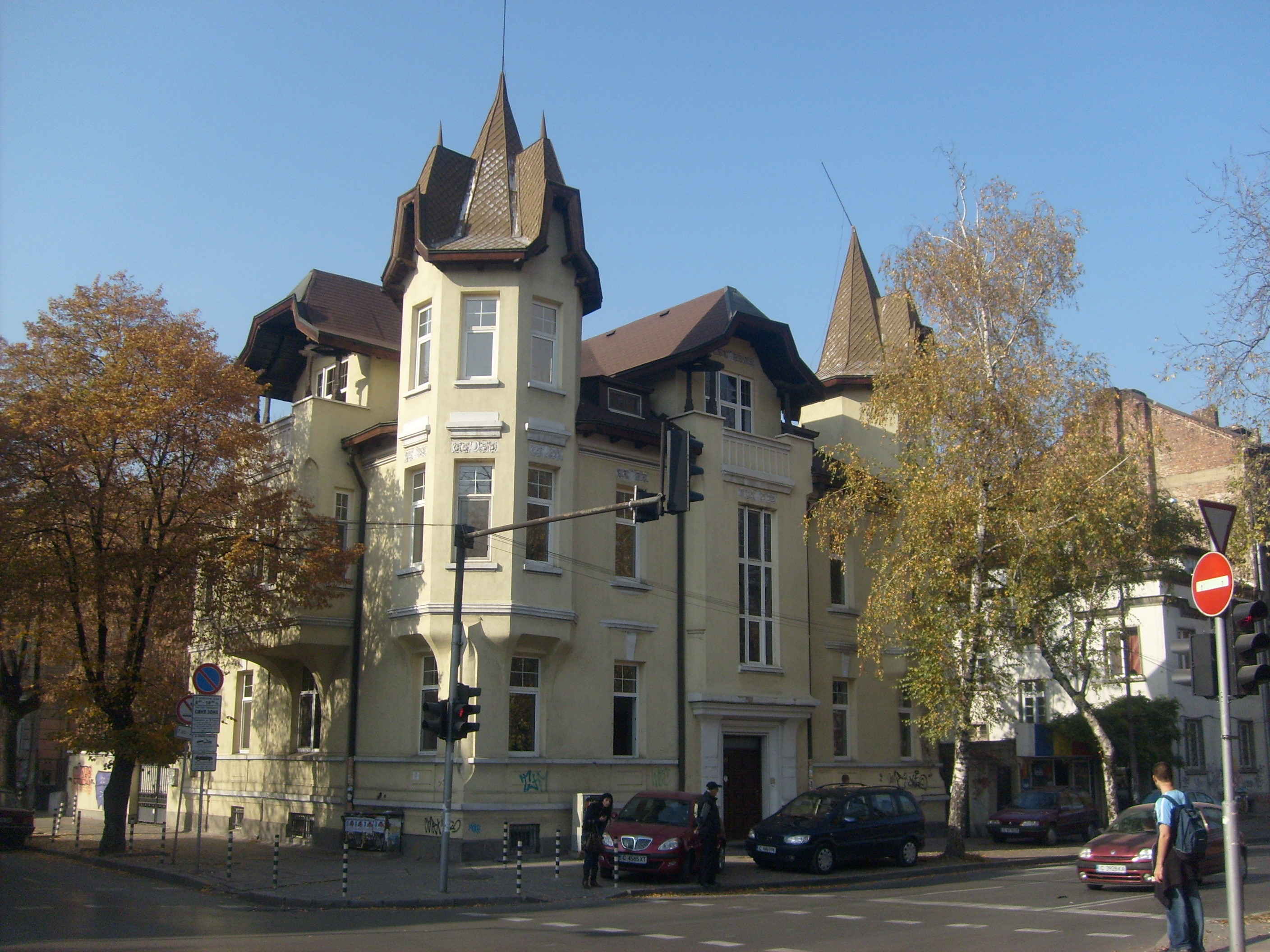 Sofia, Bulgaria Twin buildings at the canal on Oborishte Street